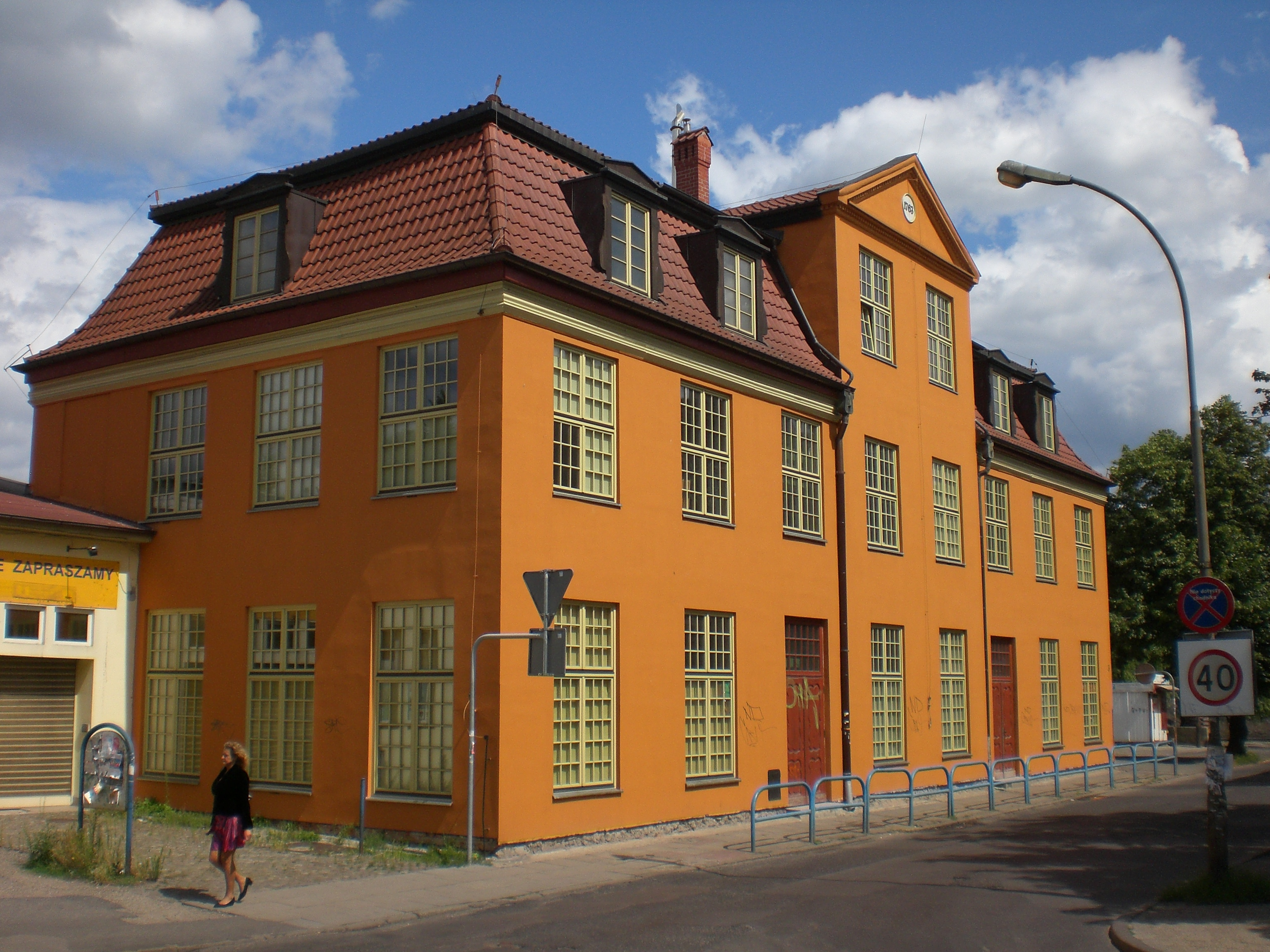 The manor in Gdańsk Wrzeszcz.